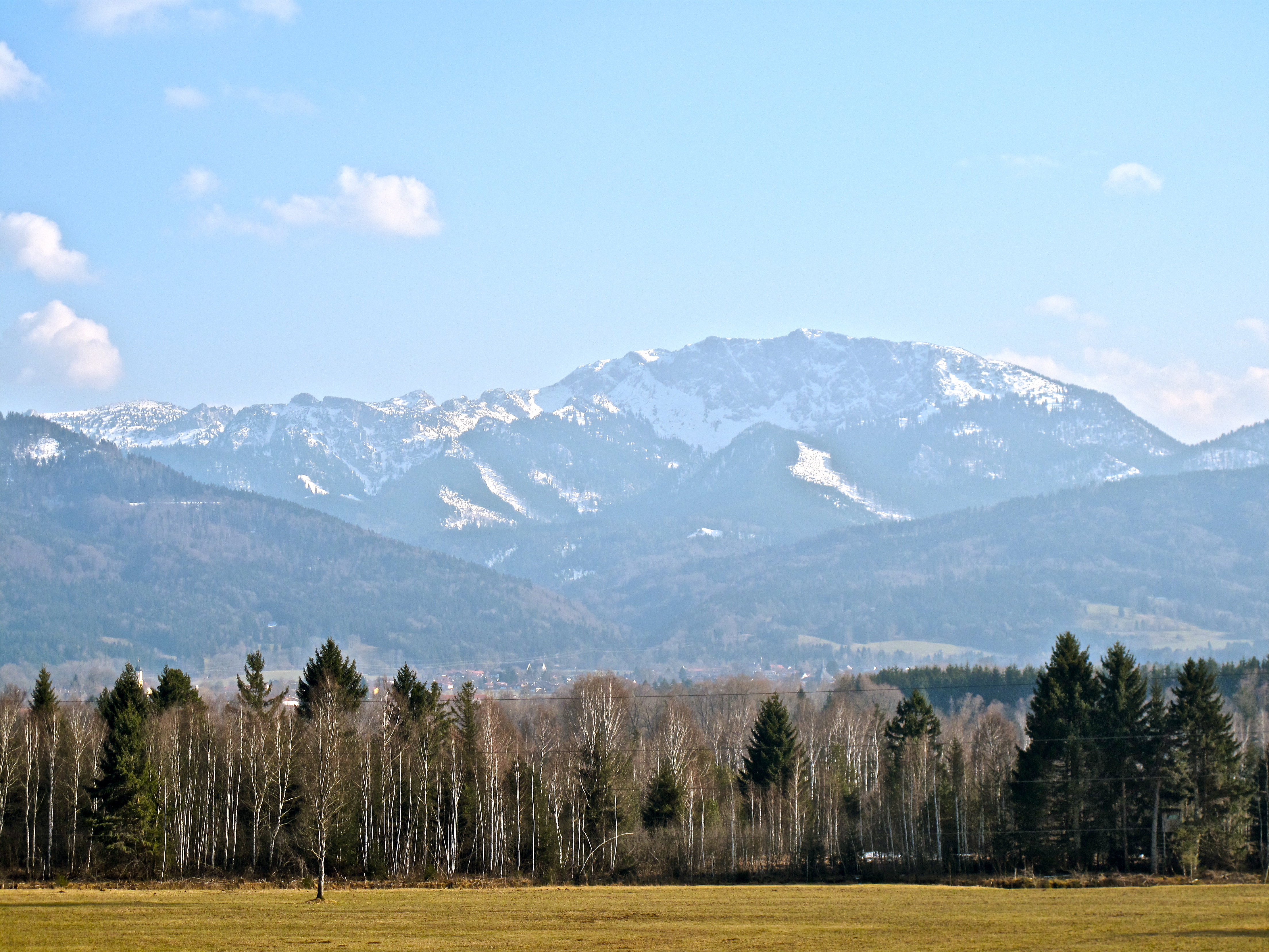 View over the Loisach-Kochelsee-Moor with the Benediktenwand in the background (seen from St. Johannisrain close to Penzberg), Upper Bavaria, Germany.